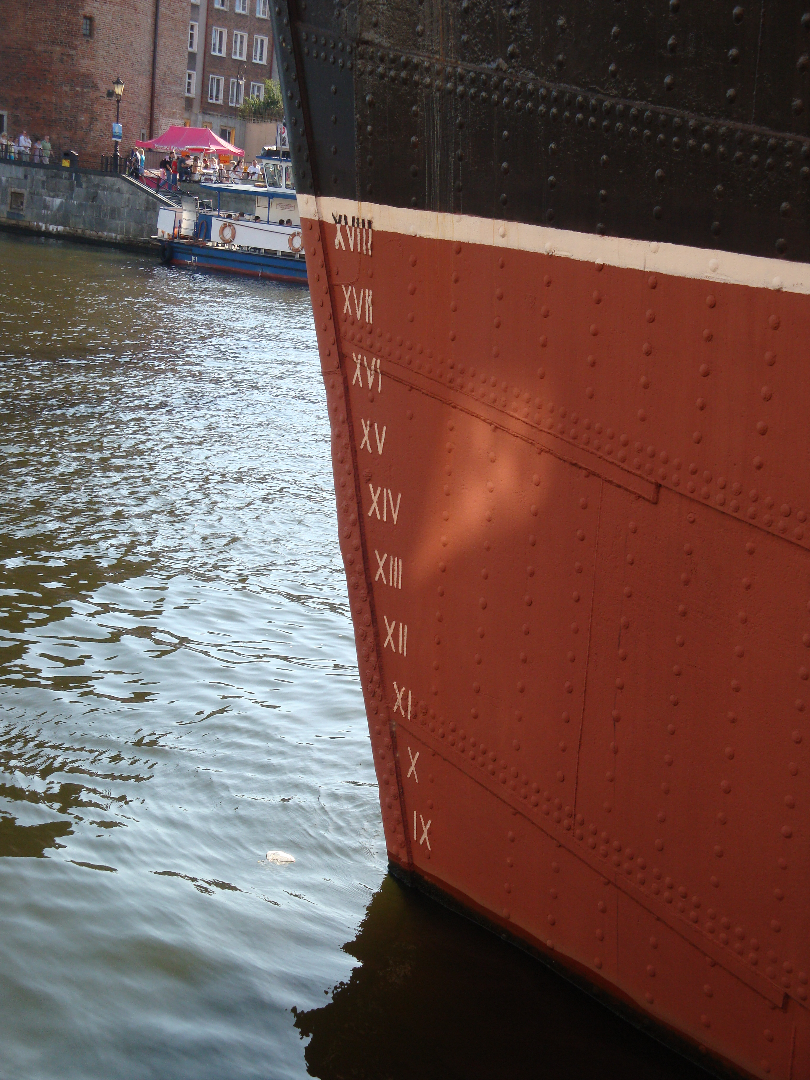 Draft marks on bow of SS Sołdek, showin draft in feet